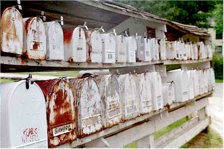 Mailboxes, Nelson, New Hampshire